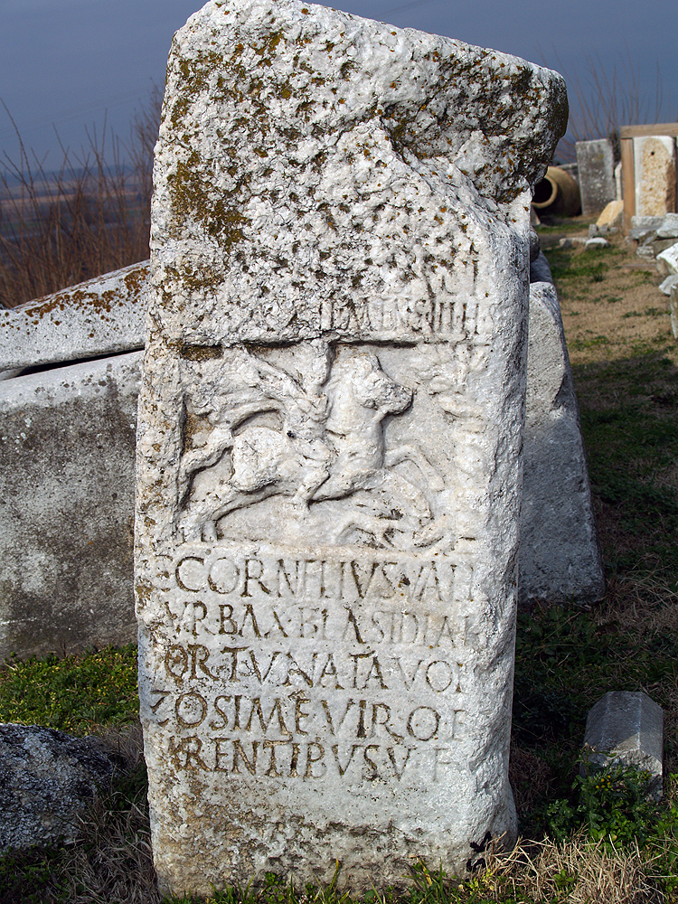 A Hero from Greek Macedonia (Archeology Museum of Philippi). Latin stele for a Caius Cornelius.